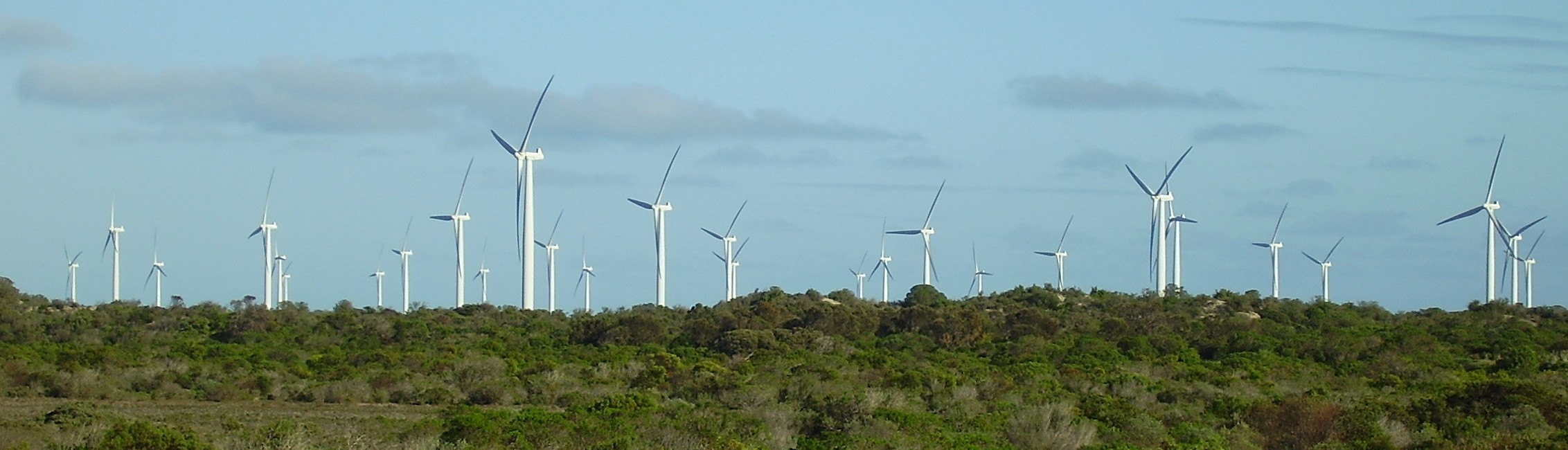 Wattle Point Wind Farm, next to Edithburgh, South Australia